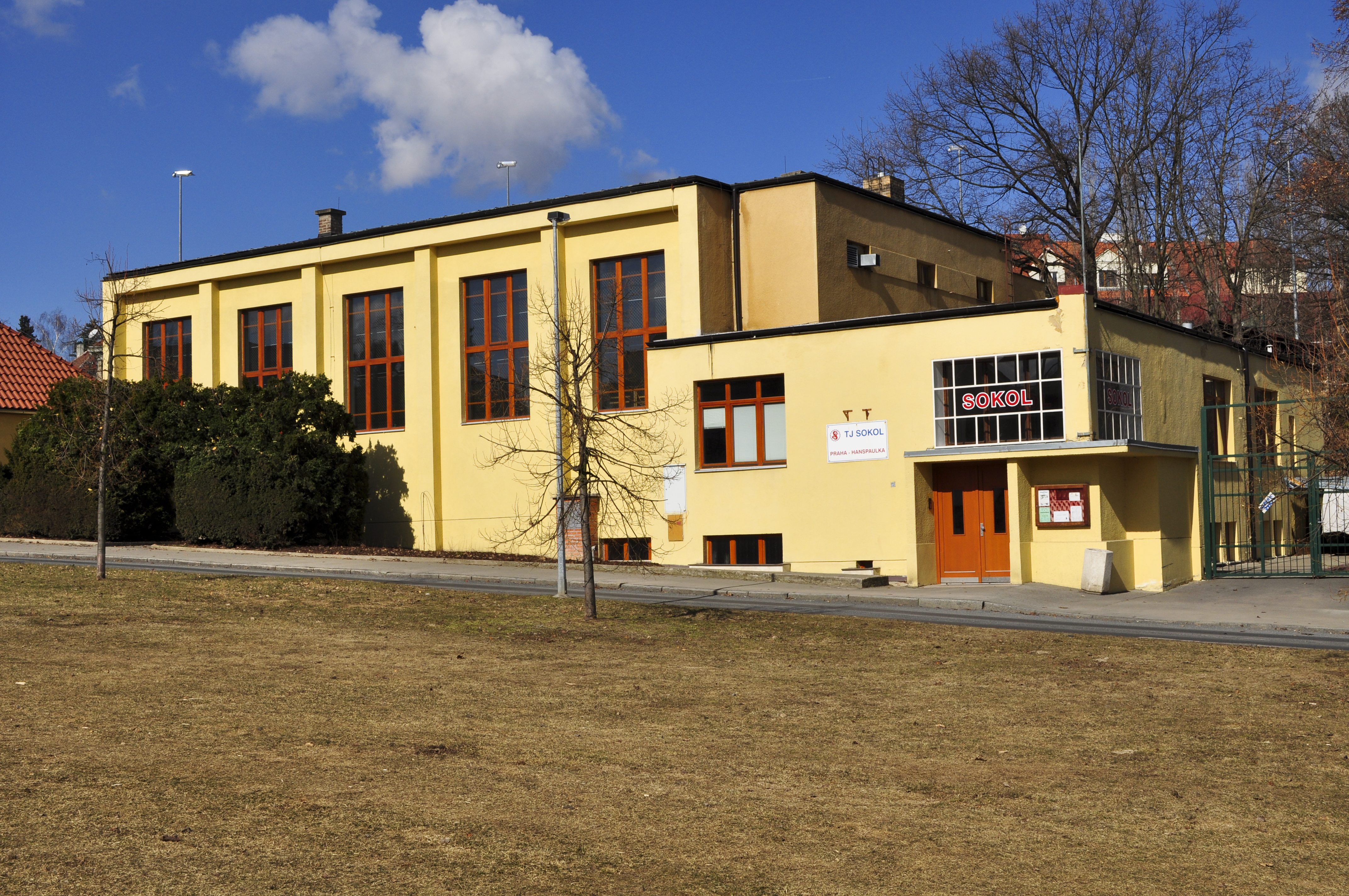 Sokol house at Hanspaulka, Praha-Dejvice, Na Hanspaulce 166/2.